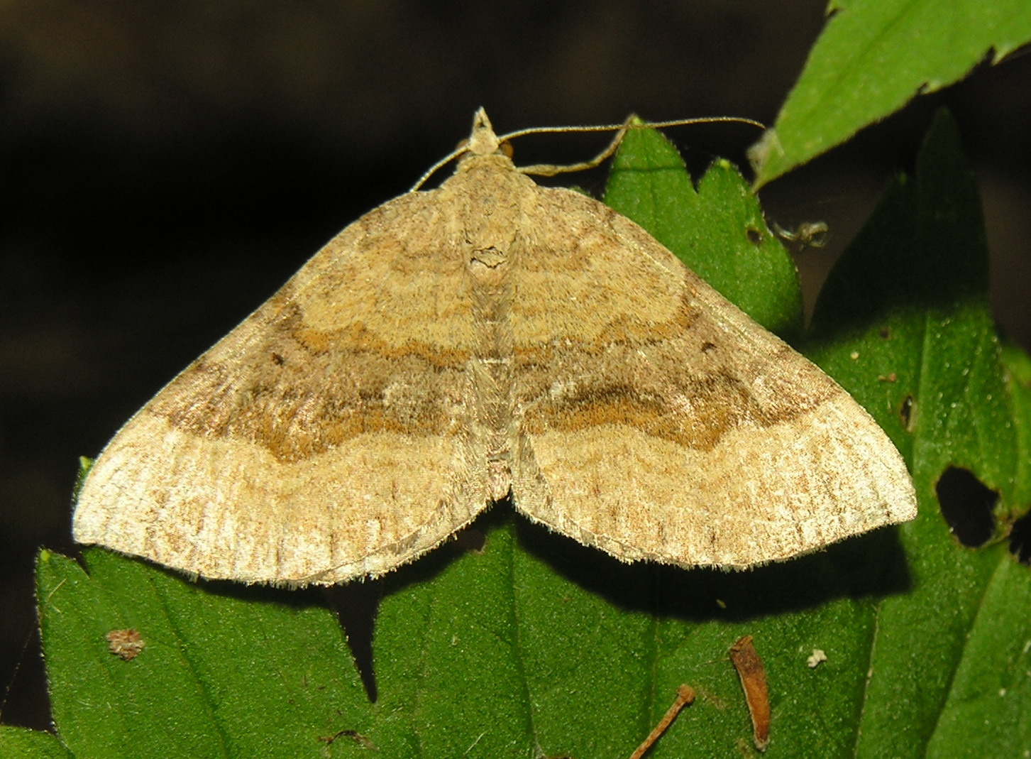 Scotopteryx chenopodiata